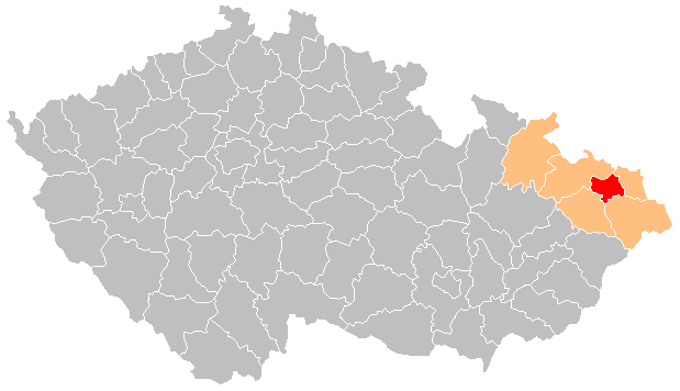 District of Ostrava-city